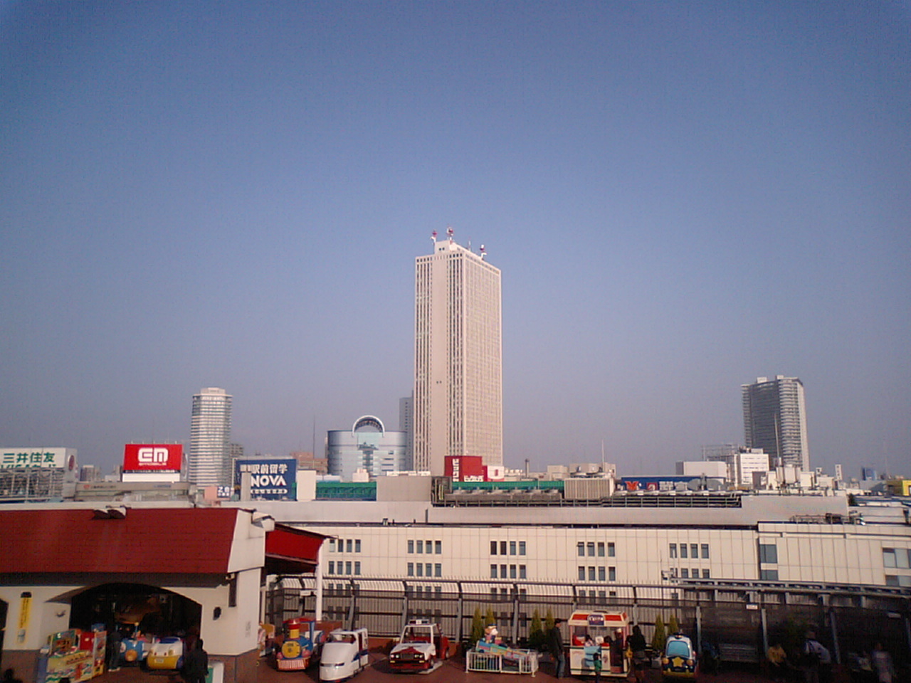 Sunshine 60 seen from Ikebukuro tobu department store. 池袋・東武百貨店屋上からみたサンシャイン60。